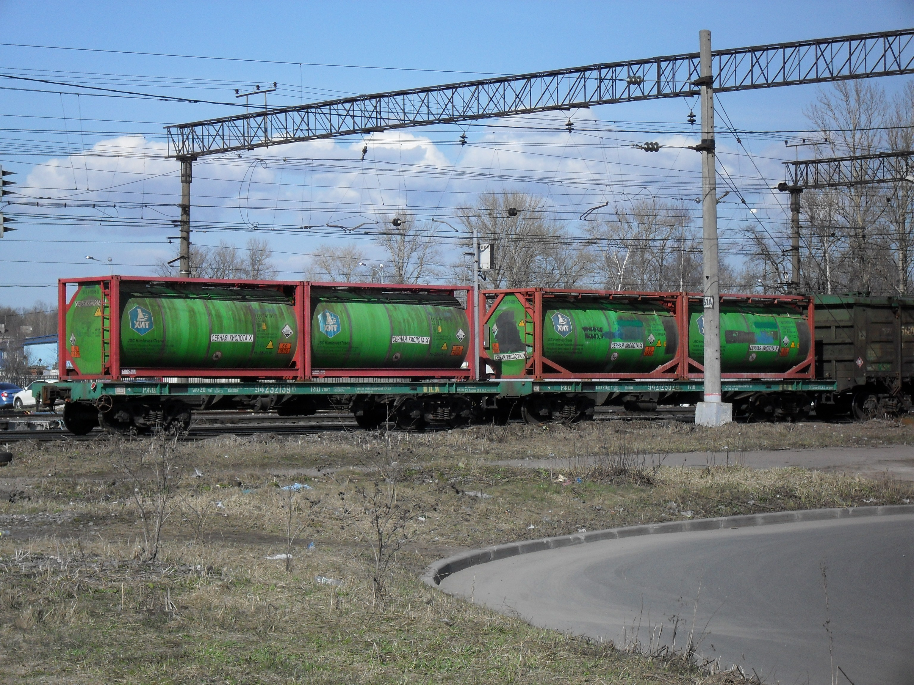 Sulfuric acid tank car